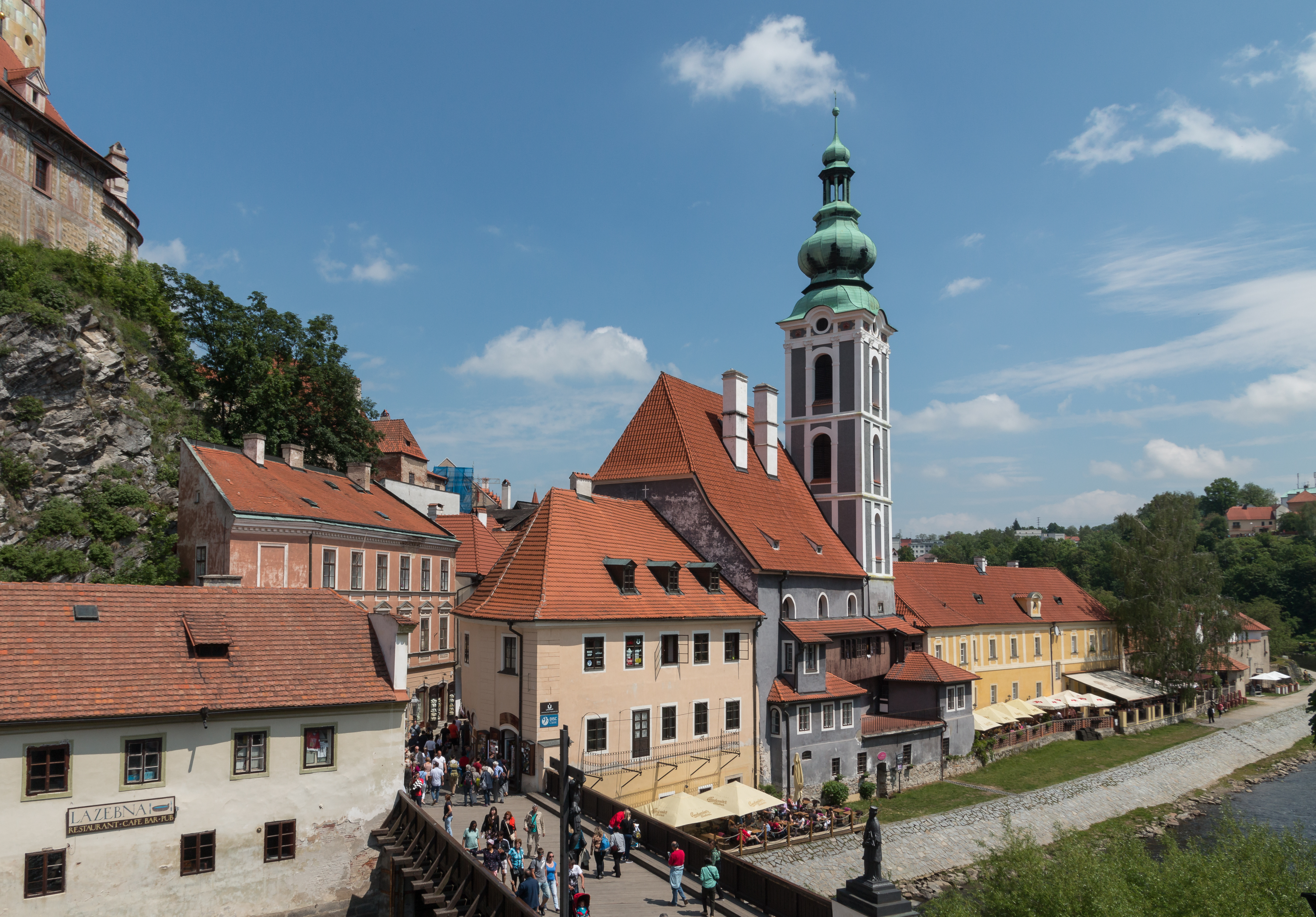 Church of Saint Judoc in Český Krumlov